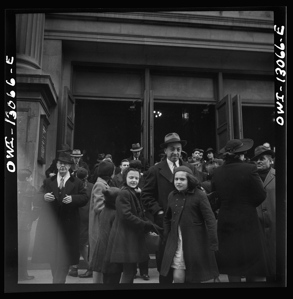 New York, New York. Italian-Americans leaving the church of Our Lady of Pompeii at Bleeker and Carmine Streets, on New Year's Day